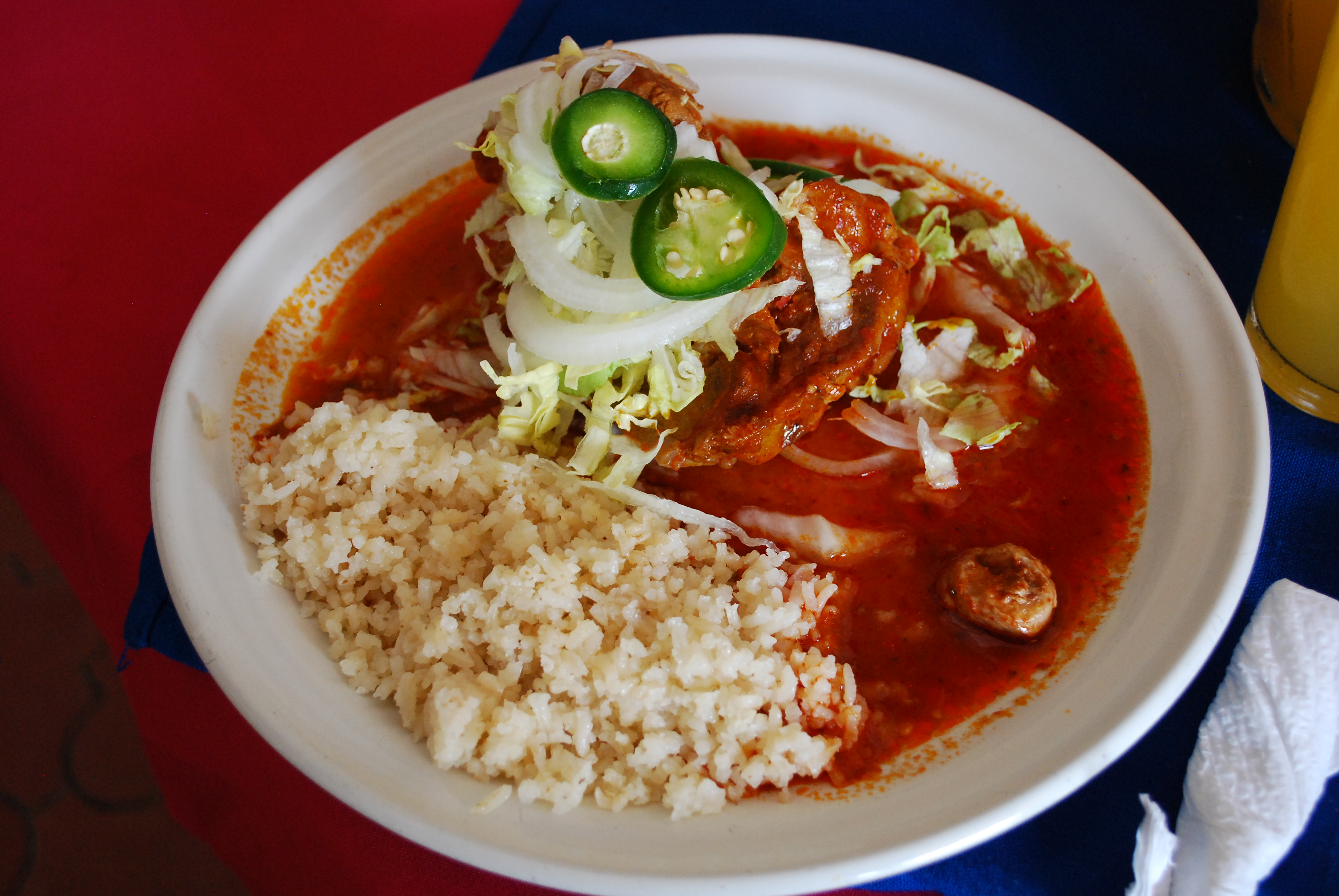 Cochito as served in a restaurant in Arriaga, Chiapas, Mexico